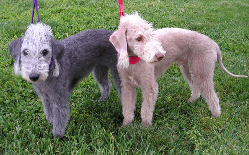 Bedlington Terriers A blue Bedlington, Burmington Maid from Magic ("Diamond"), Canine Good Citizen, Novice Agility, Novice Jumpers (dog agility titles). A sandy-colored Bedlington, Burmington Kind of Magic ("Hammer"), Canine Good Citizen, Novice Jumpers (dog agility title), International Jr. Champion Both dogs are from working lines of Bedlingtons from England. Owned by Jeri Bernard. Pleasanton, CA; Breeder: Lesley Caines, Banbury, England